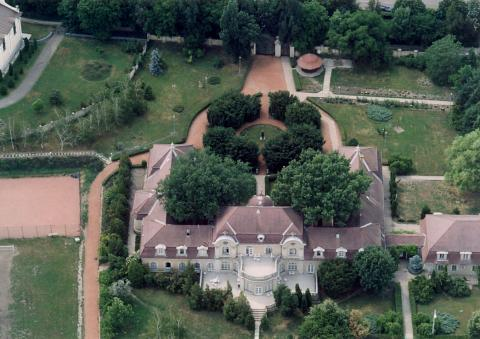 Kenderes, Hungary, aerialphotography This is a photo of a monument in Hungary, Identifier: -9979